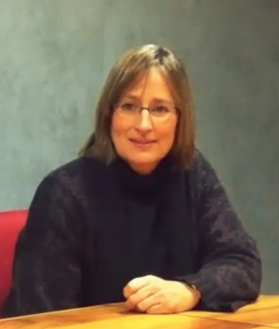 Interview with Sharon Calahan, director of film photography and lighting for Pixar, at the VIEW (Virtual Interactive Emerging World) Conference in Torino in 2011 by